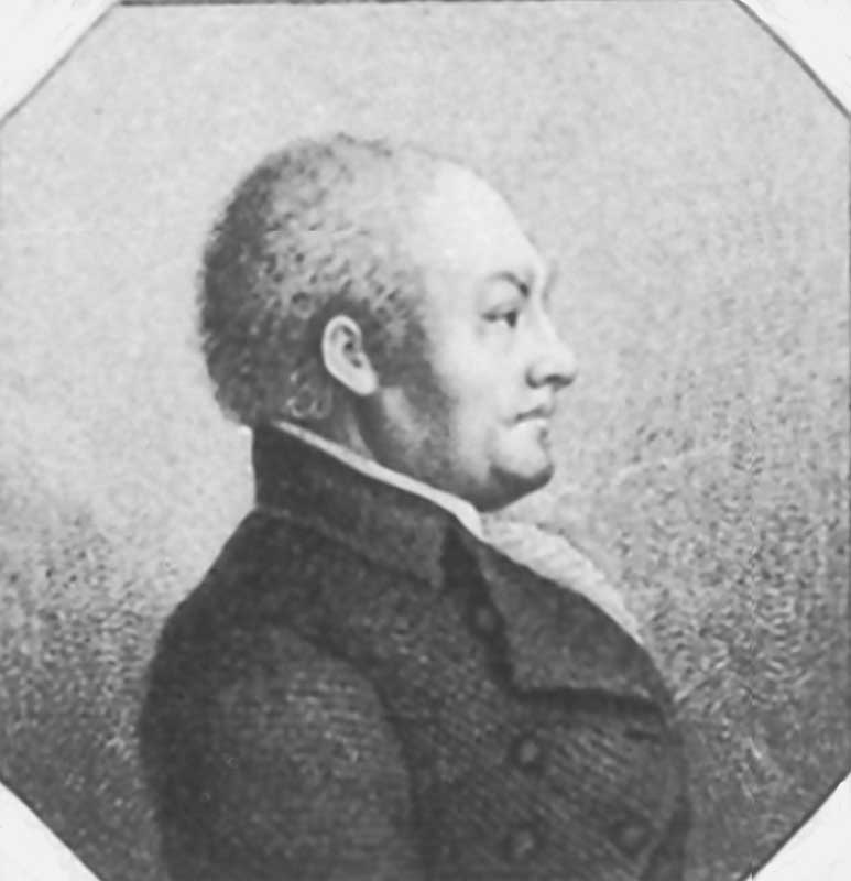 Christian Friedrich Ludwig (1751-1823) Physician from Germany